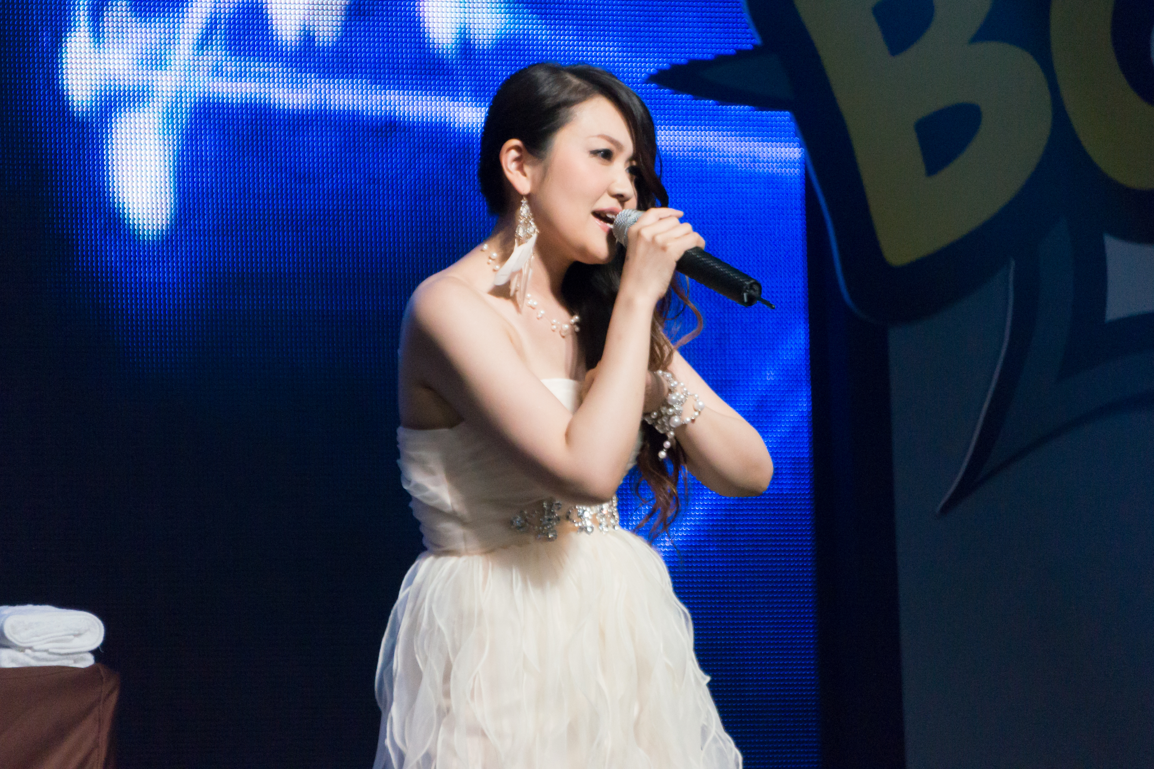 Mami Kawada performing at the Bangkok Comic Con in July 2014.